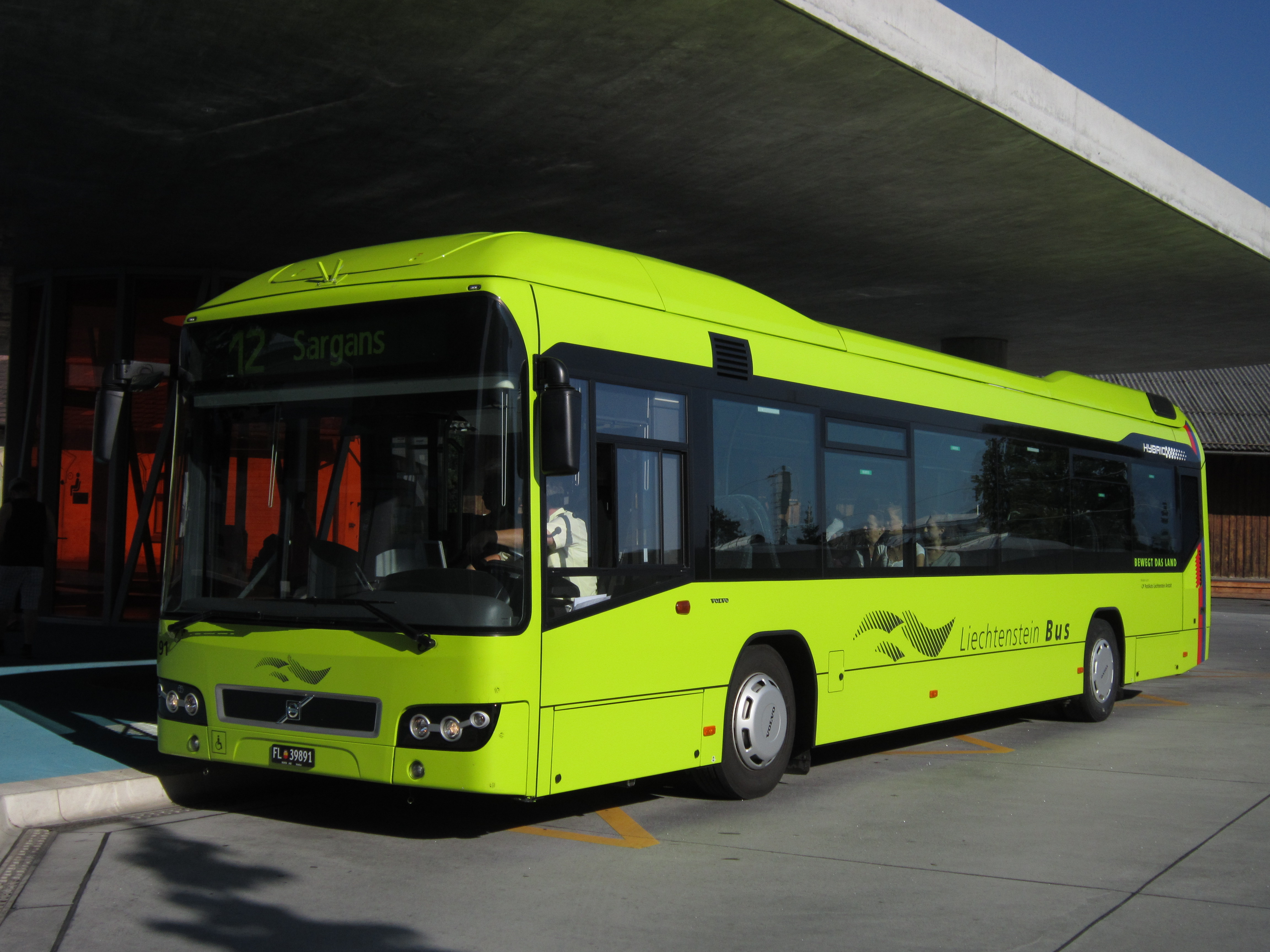 A Volvo 7700 Hybrid bus at the Schaan train station (FL) on the line 12.